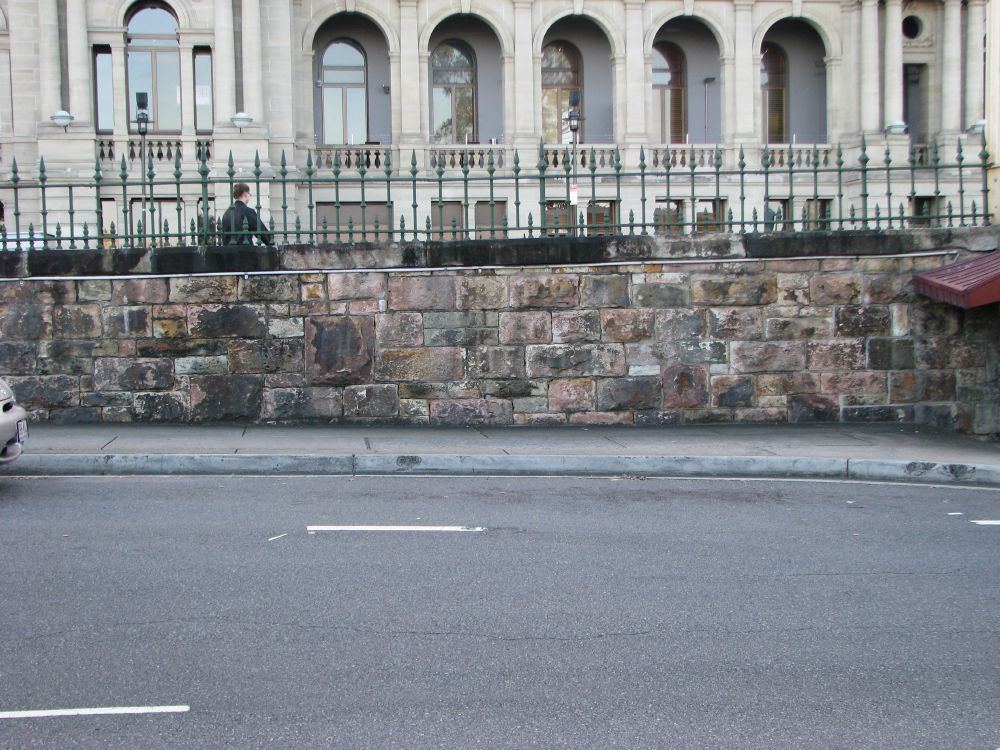 William Street and Queens Wharf Road retaining walls (2008), seen from Queensland Wharf Road side, Treasury building in the background